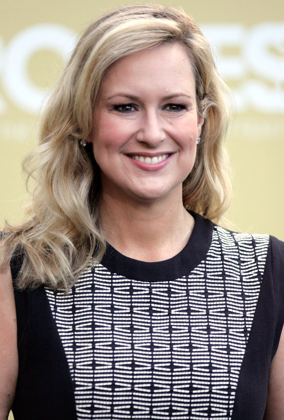 Tropfest 2013 on tonight: Sydney, Australia; Red carpet and awards update